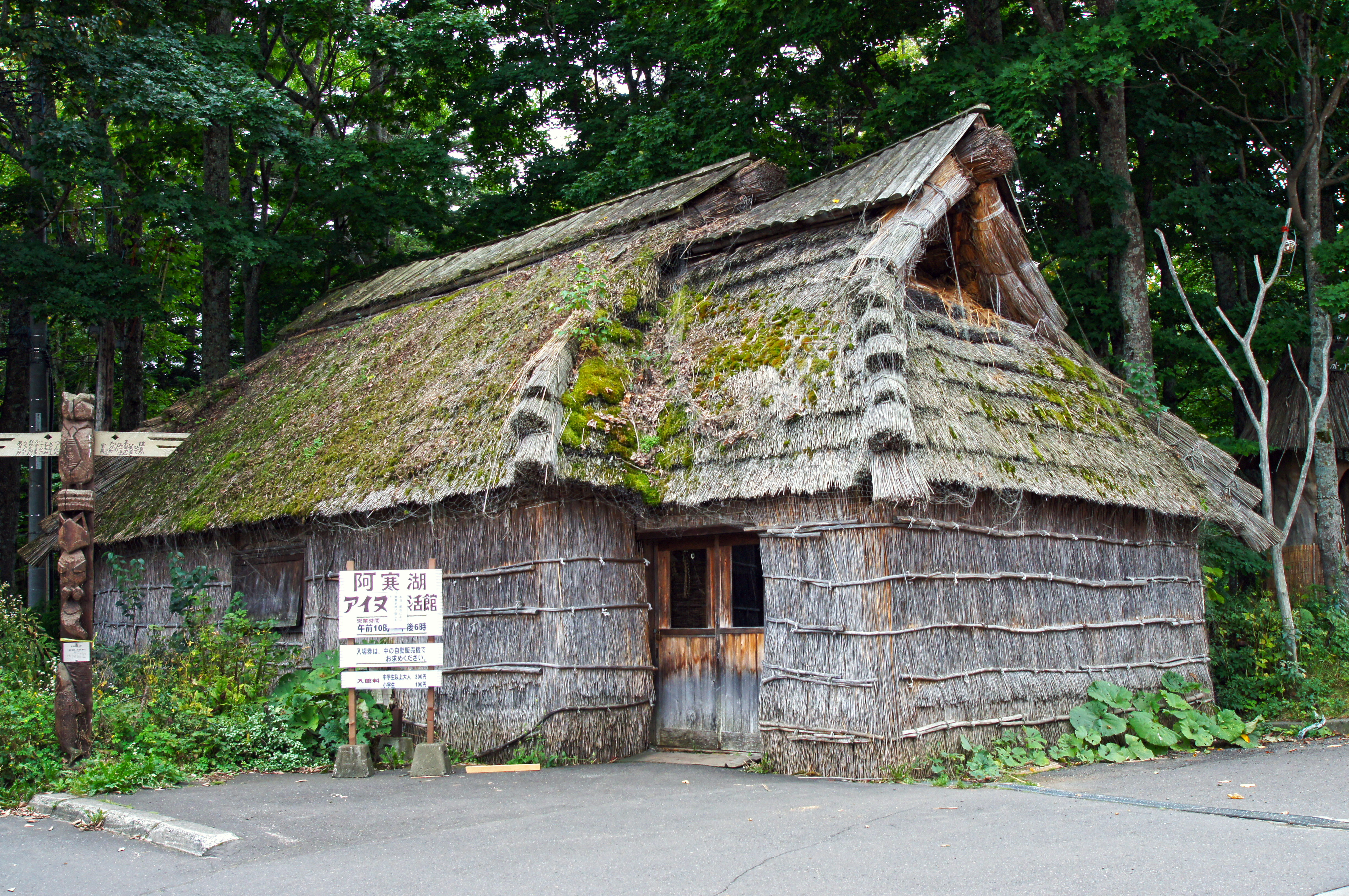 Kotan in Akan, Kushiro City, Hokkaido prefecture, Japan